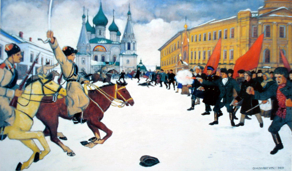 "The Bloody Sunday" on 9.12.1905 in Yaroslavl. A.I. Malygin. 1929.